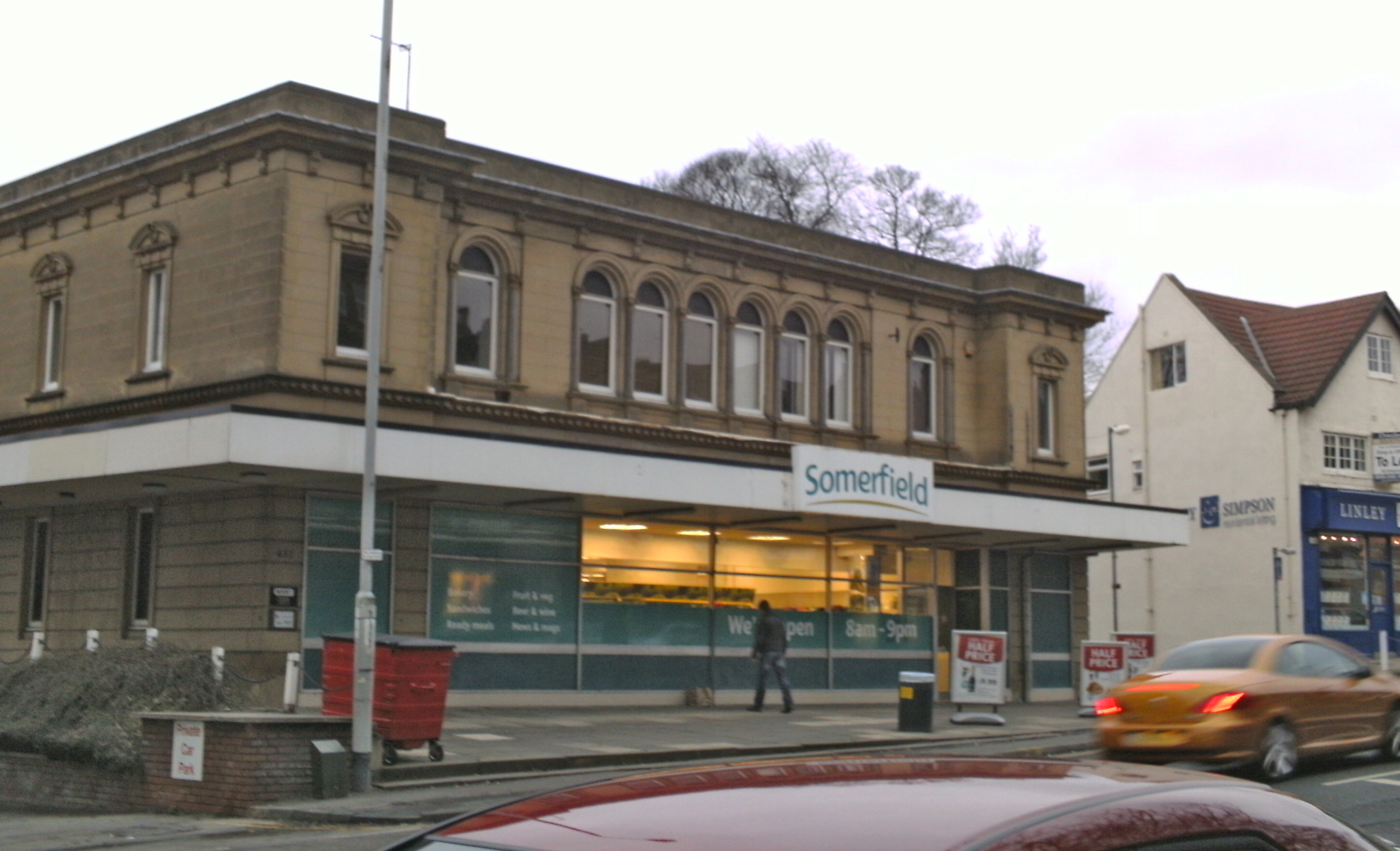 Somefield in Oakwood, Leeds, UK (formerly Safeway). The branch (while Safeway) was used for brief filming in the Beiderbecke Tapes.